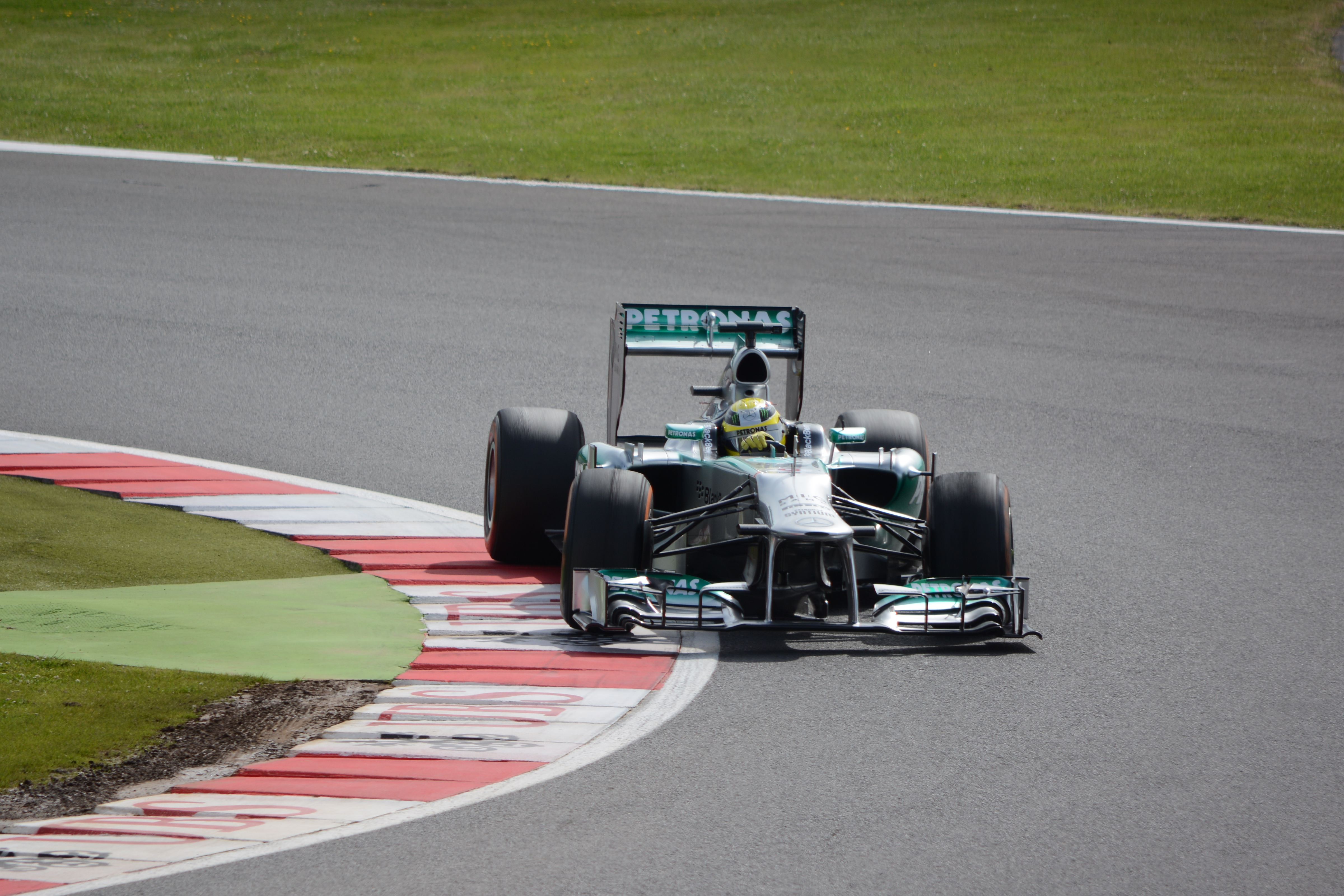 Nico Rosberg (Mercedes) at the 2013 British Grand Prix.